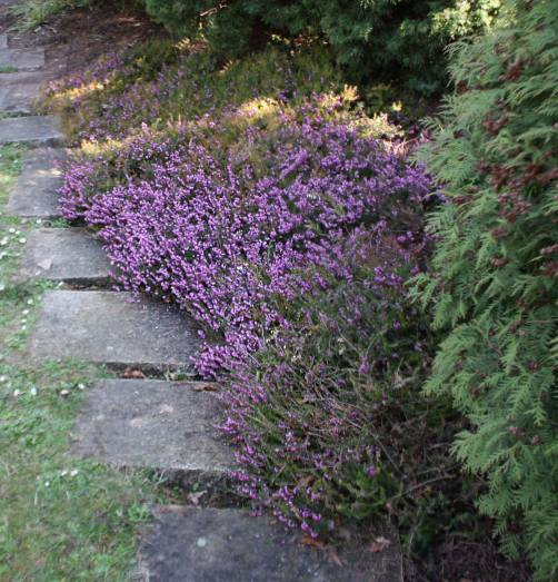 Erica carnea ,Winter heath, april 2009, Brno, Czech republic , EU